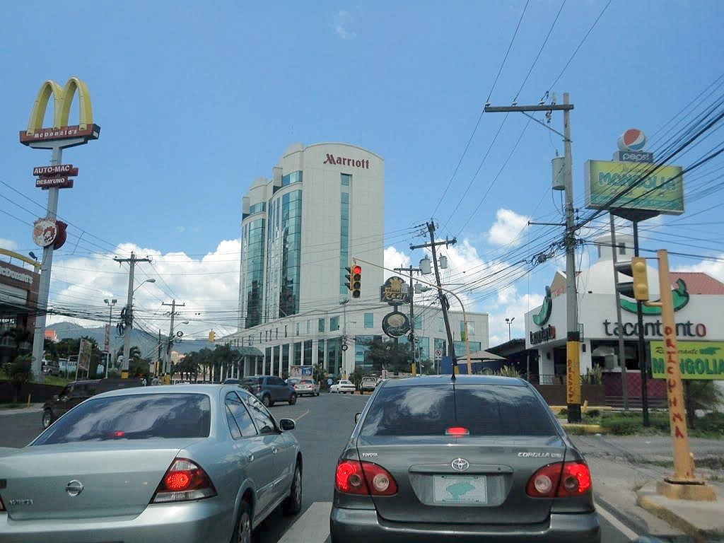 Eastbound on John Paul II Blvd in the Commercial/Financial Center of Tegucigalpa, M.D.C, capital of Honduras; the Marriott Hotel lies in the center of the image.